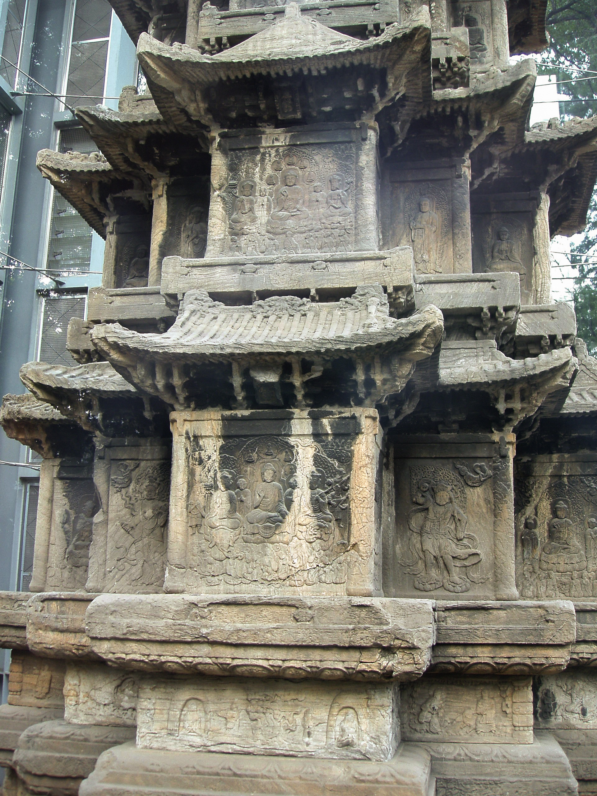 Wongaksaji, c. 1465. Pagoda detail, Tapgol Park - Seoul, Korea.